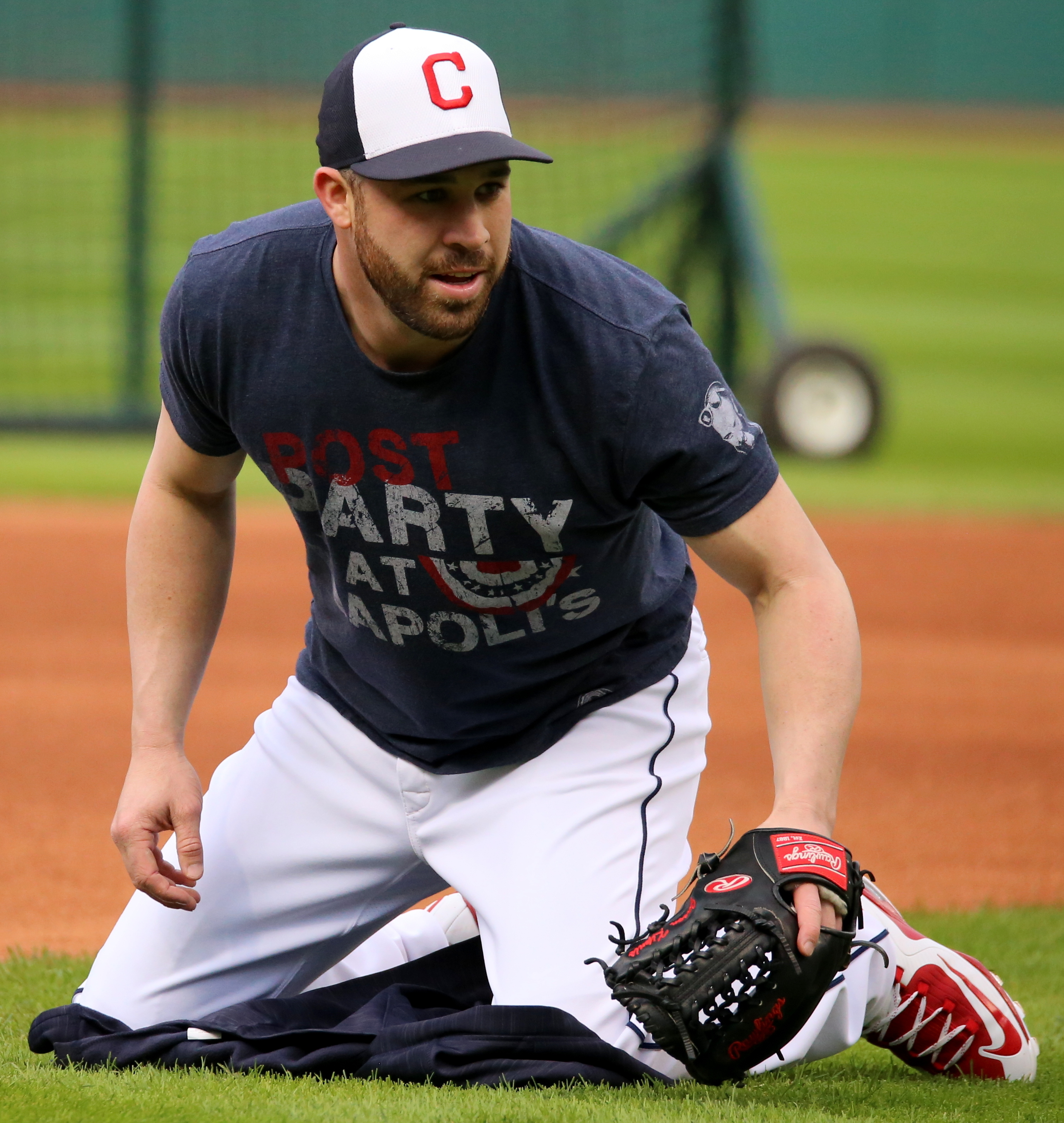 Indians second baseman Jason Kipnis fields grounders before #WorldSeries Game 1.